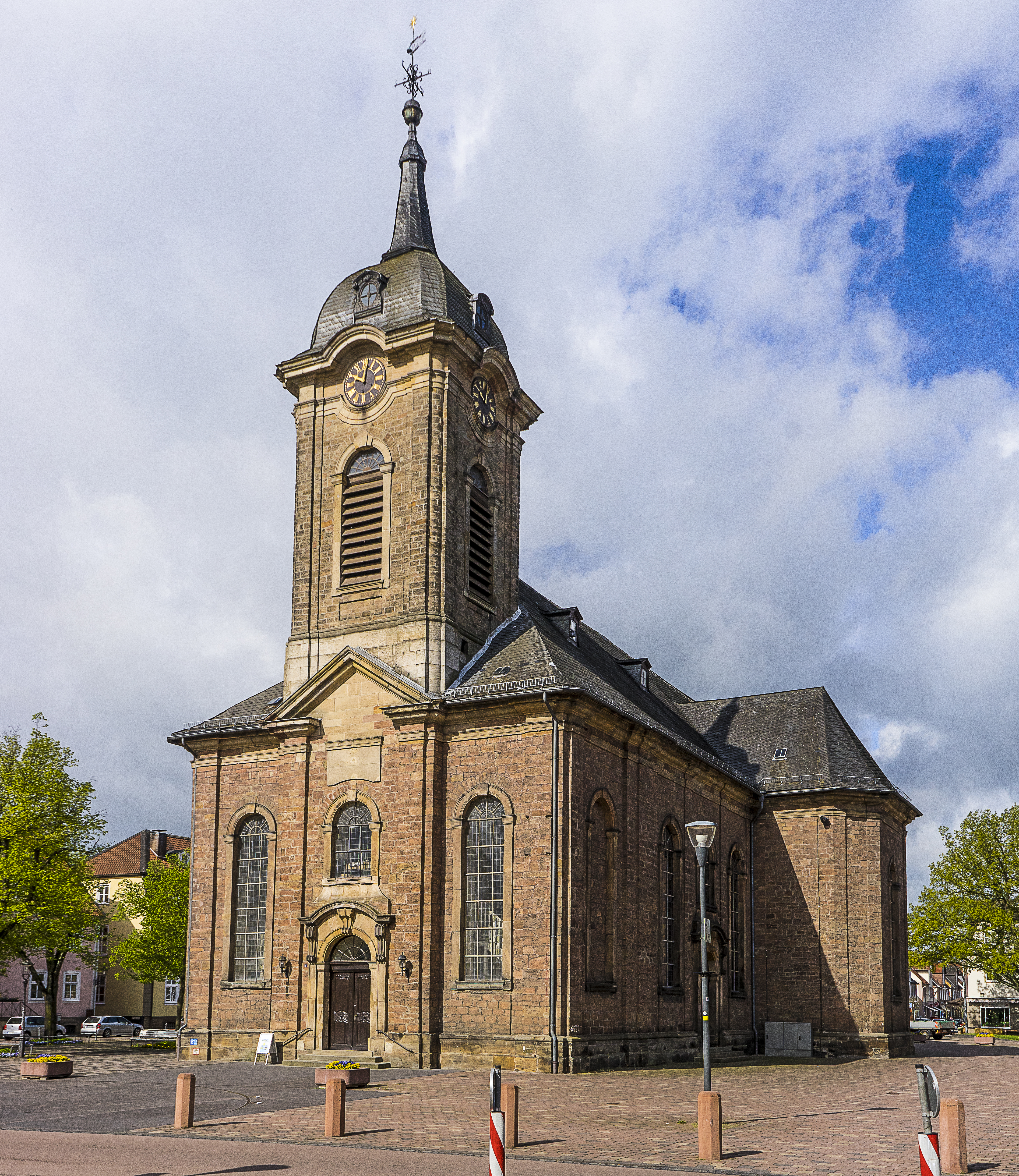 Evangelic Townchurch in Bad Arolsen